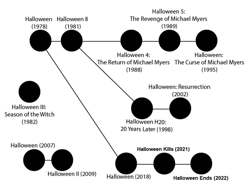 Illustrates the continuity between films in the Halloween franchise. Each circle represents a film, as labeled. A line between two circles represents continuity between that film and the previous film.